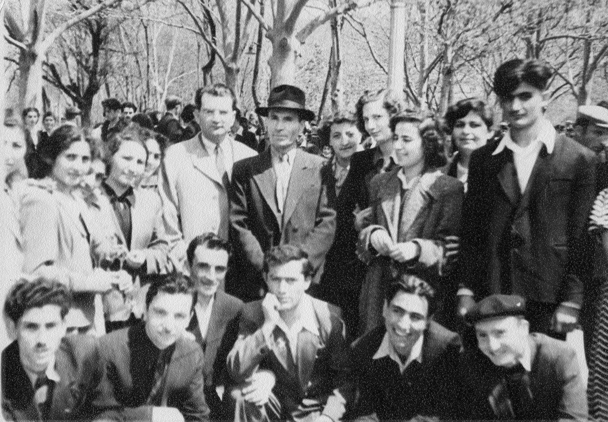 Edvard Chubaryan 75th Birthday, 05 May 2011 05, No. 30